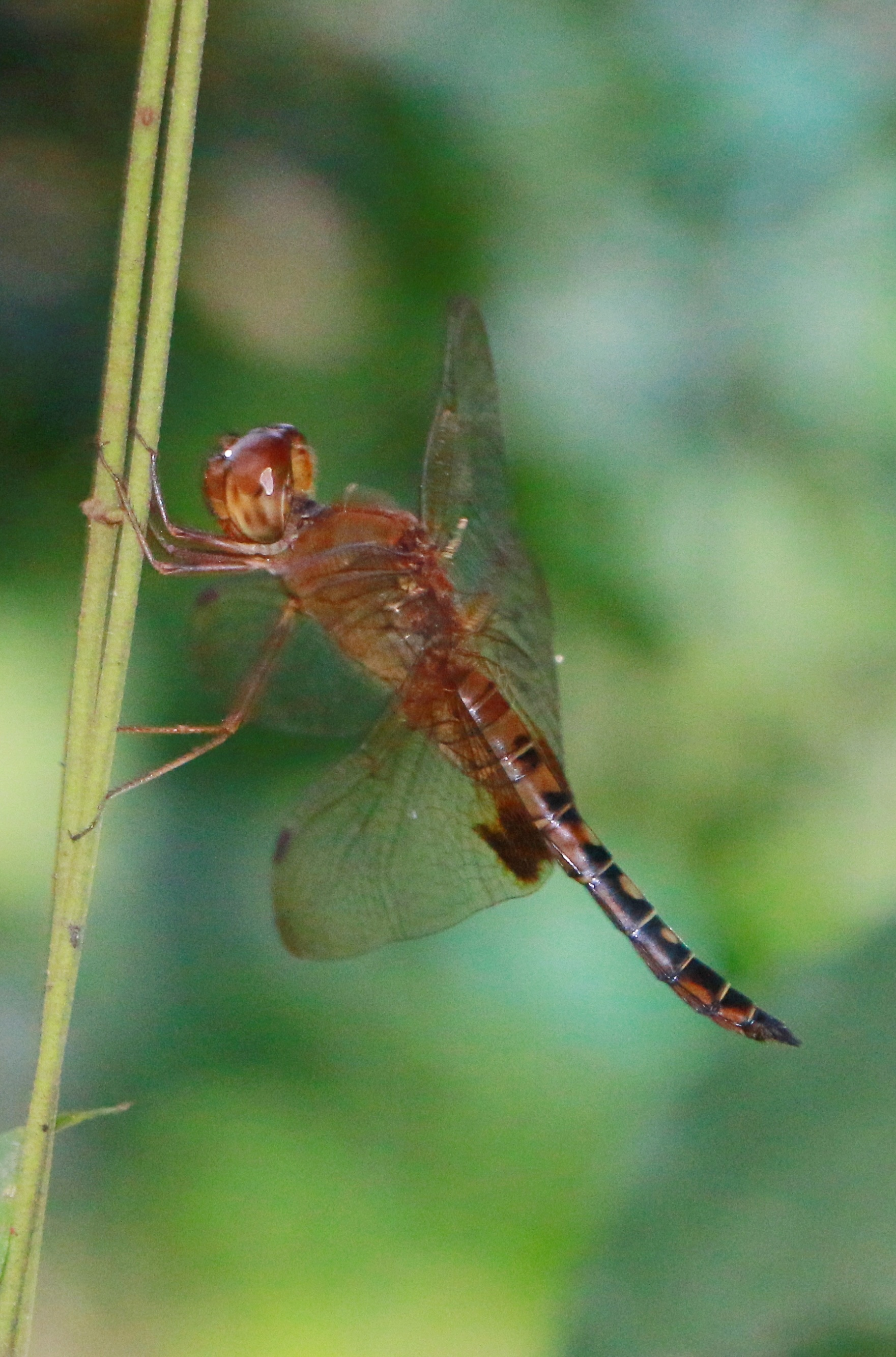 Hydrobasileus croceus,amber-winged marsh glider